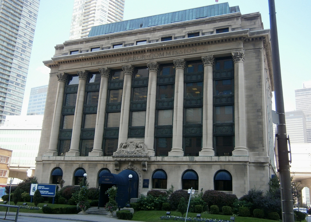 What car pollution will do to a building! Now imagine what pollution does to your body? How many cancers are a result of this pollution? This we will never know. The historic Toronto Harbour Commission building. From far the building looks more black, darker. Recently, the building has been cleaned. I remember the facade being dirtier.